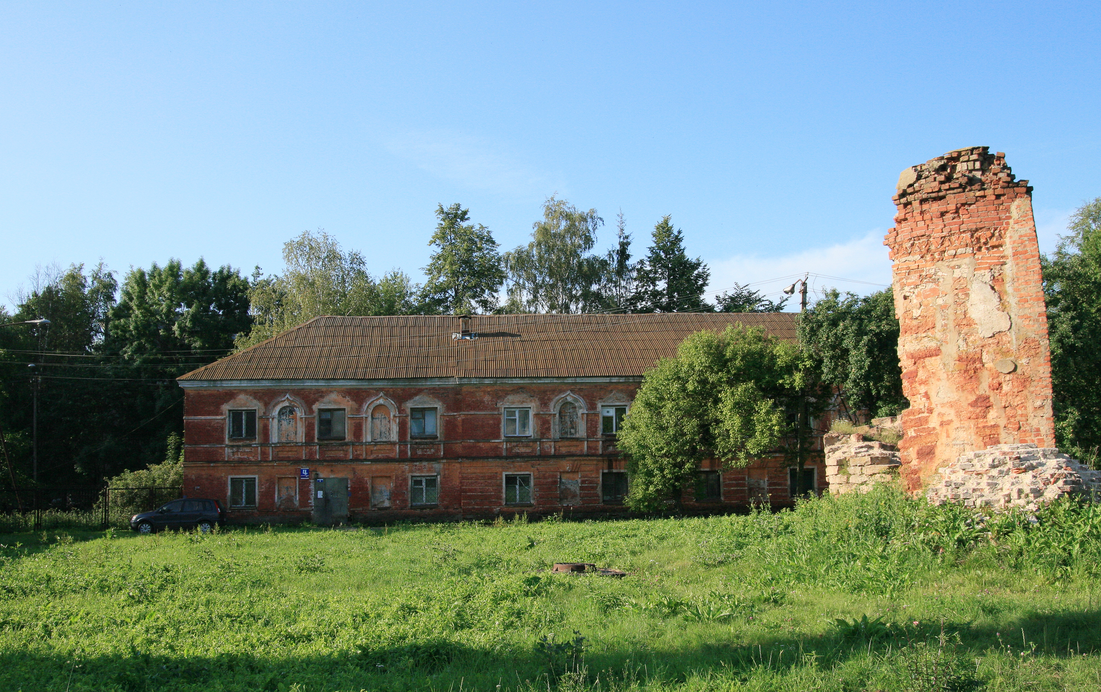 Southern building of Desyatinny monastery, Veliky Novgorod